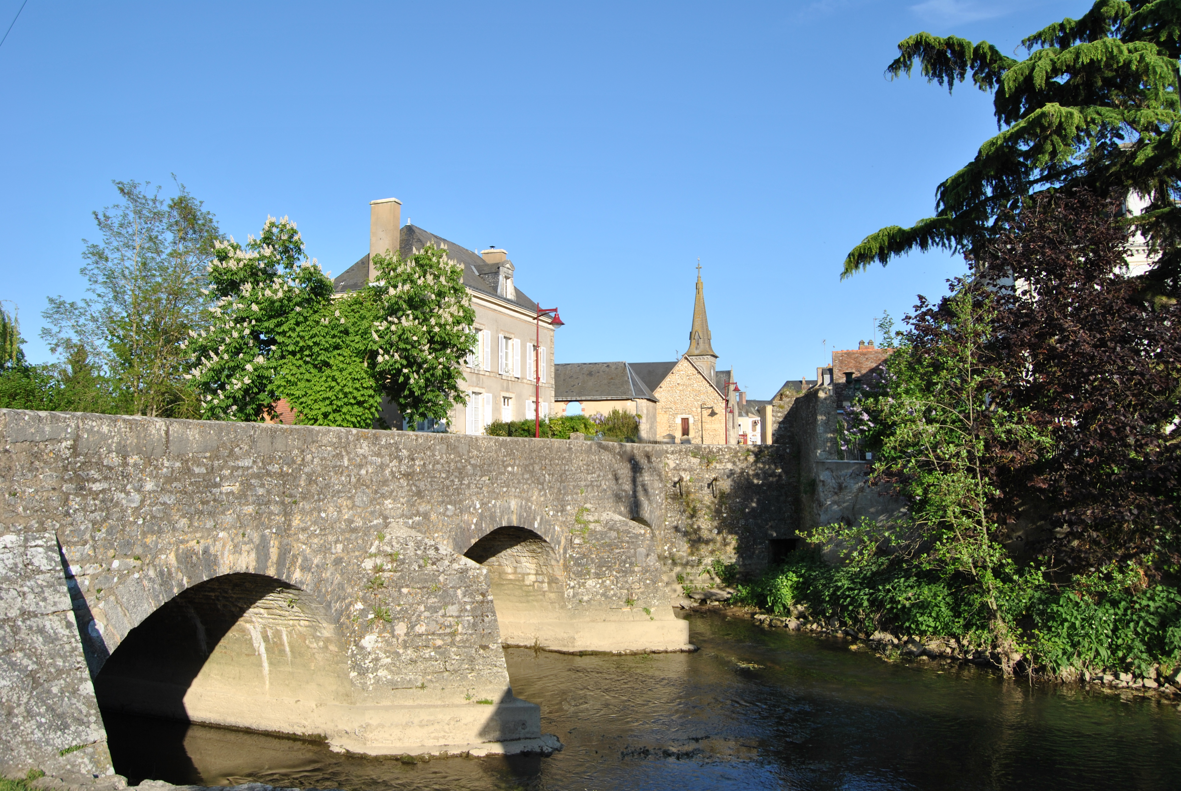 Pont en pierre sur la Vègre à l'entrée de Bernay-en-Champagne sur la route de Saint-Symphorien